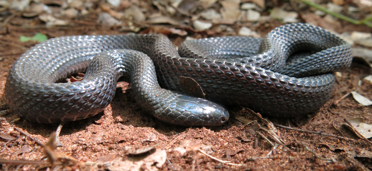 Gonionotophis nyassae, Black Phase, Soutpansberg, South Africa